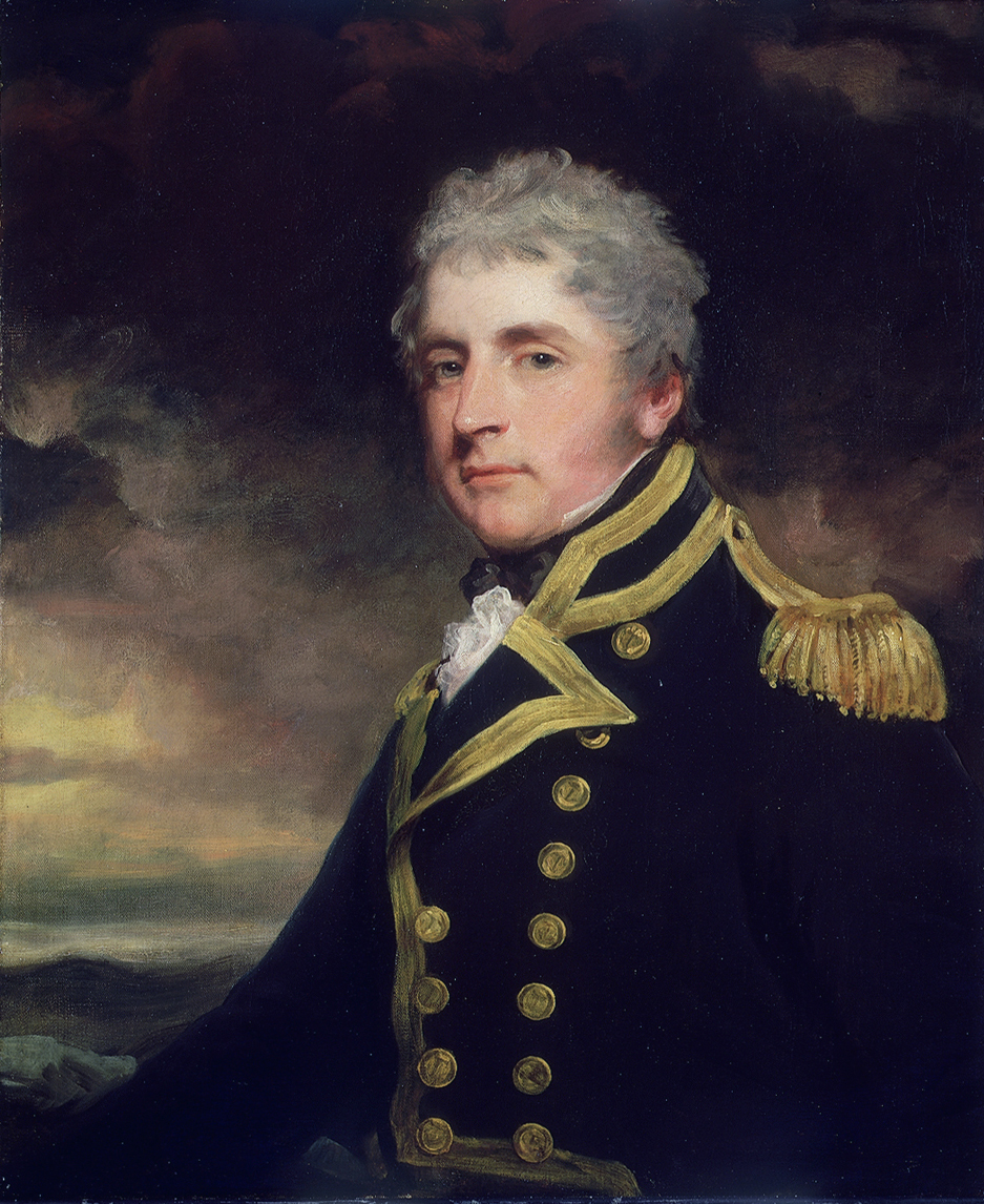 Henry Blackwood, widely used photo. It is a historically significant photo of a famous individual; it is of much lower resolution than the original (copies made from it will be of very inferior quality) Sources source 1: source 2